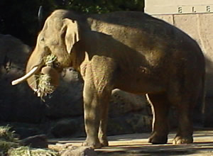 Asian elephant (elephas maximus) Photograph taken on 10 May 2003 by G King at Melbourne Zoo, Victoria, Australia. Public domain: copyright disclaimed.